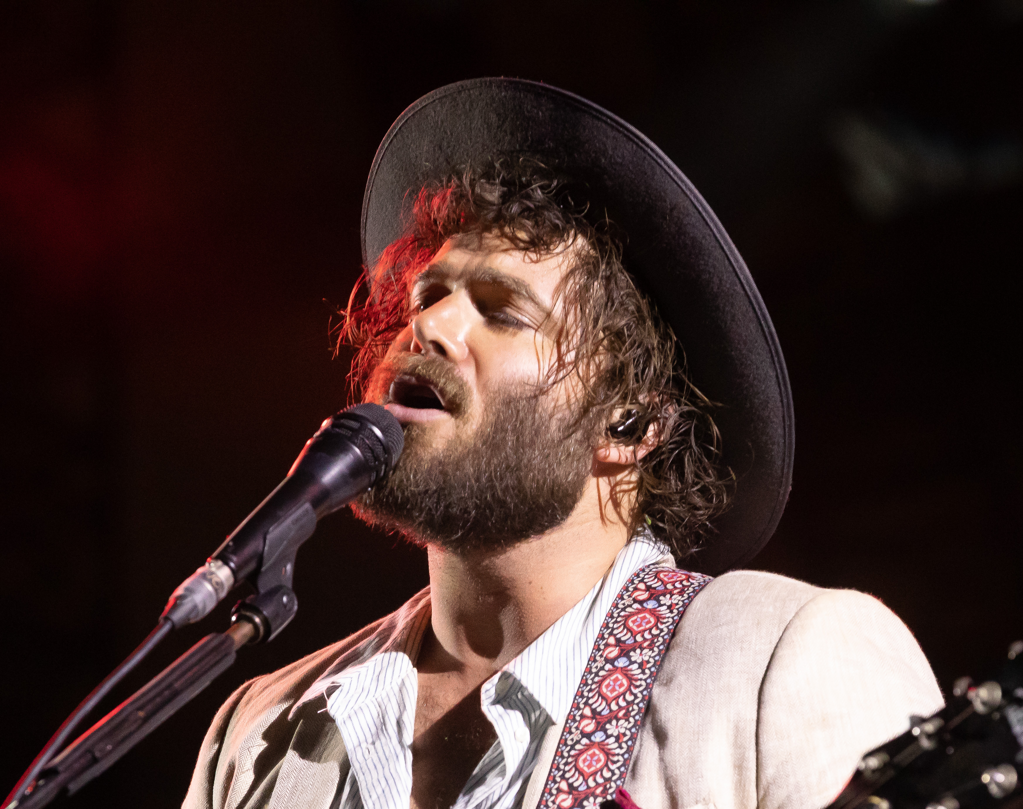 Angus Stone performing at Paul Kelly's concert at The Domain in Sydney on 15th December 2018